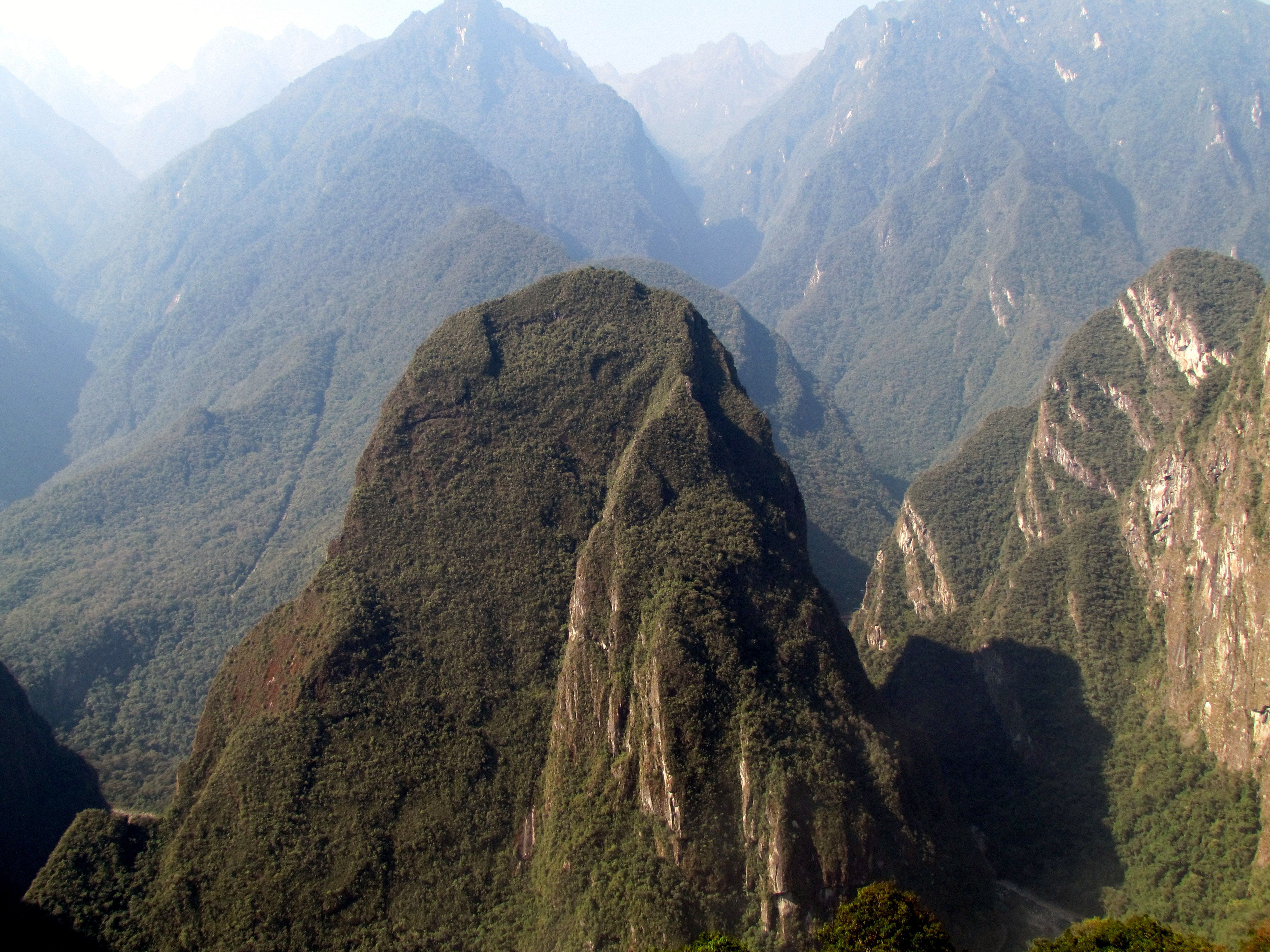 181 View from Inca Trail to Sun Gate Machu Picchu Peru 2444